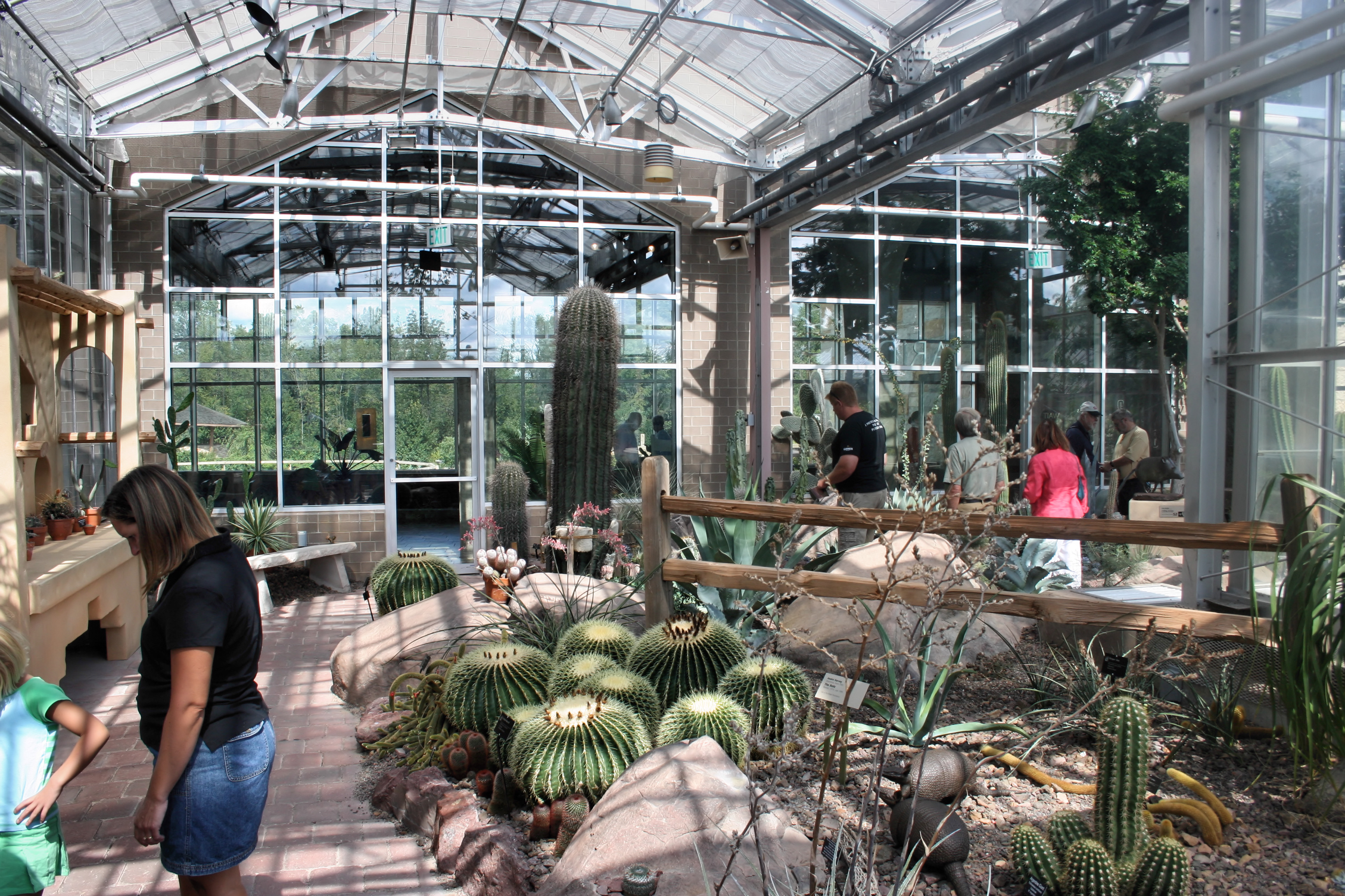 The arid room inside the conservatory at Frederick Meijer Gardens in Grand Rapids, Michigan.